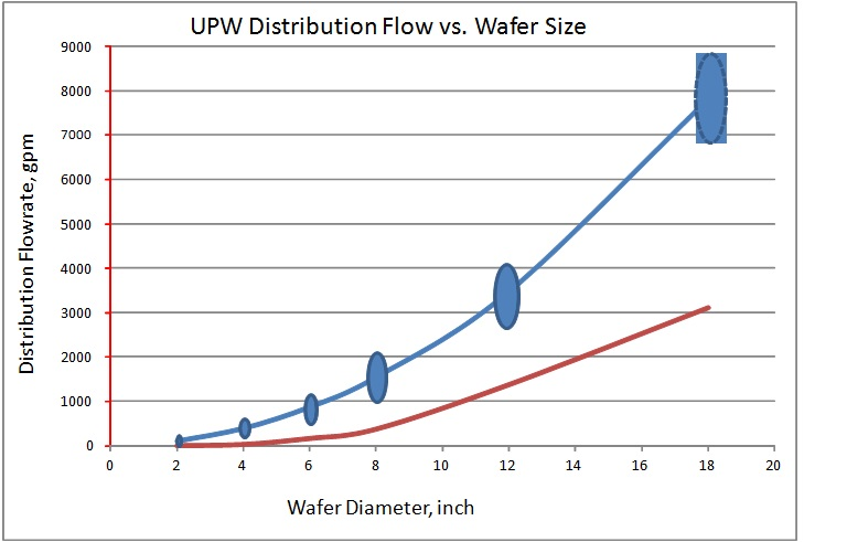 The diagram shows how ultrapure water distribution flow increases with wafer diameter.